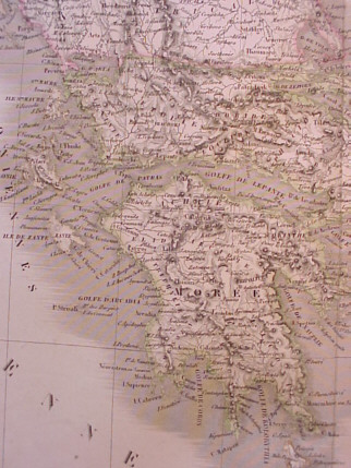 Map of the boundaries of the Greek Kingdom after the Treaty of Constantinople.